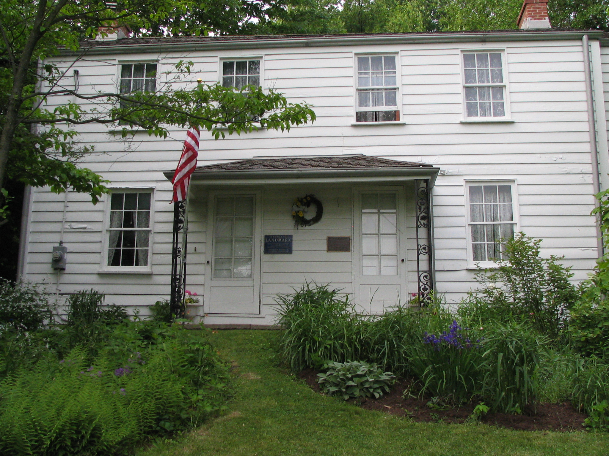 Photo taken at Rachel Carson's 100th Birthday celebration at Rachel Carson Homestead in Springdale, PA